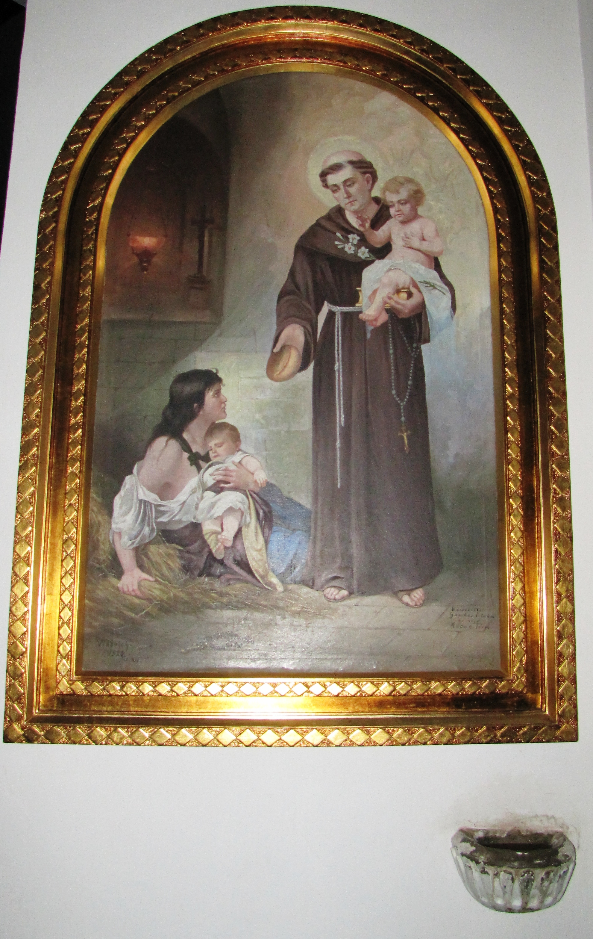 The painting depicts Anthony of Padua in his Franciscan dress; handing over a piece of bread with his right to a woman. The woman is lying in hay, holding her newborn baby in her left hand. This scene represents both of Anthony's most popular titles: one is the protector of the pregnant women and other is the helper of the poor. In his left hand, the saint holds a book. The infant Jesus is sitting on the closed book with his hand in the teacher's pose. This refers to Anthony's exceptional skills in theology and preaching the word. On the lap of the infant Christ you can point out Anthony's most popular attribute: the white lily. The painting was ordered by István Gombos and his wife, Teréz Módán. It was painted in 1938 by a painter with the surname of Vidovich - this is what the signature says on the bottom of the picture. It can be found in the Greek Catholic Cathedral of Hajdúdorog, Hungary.